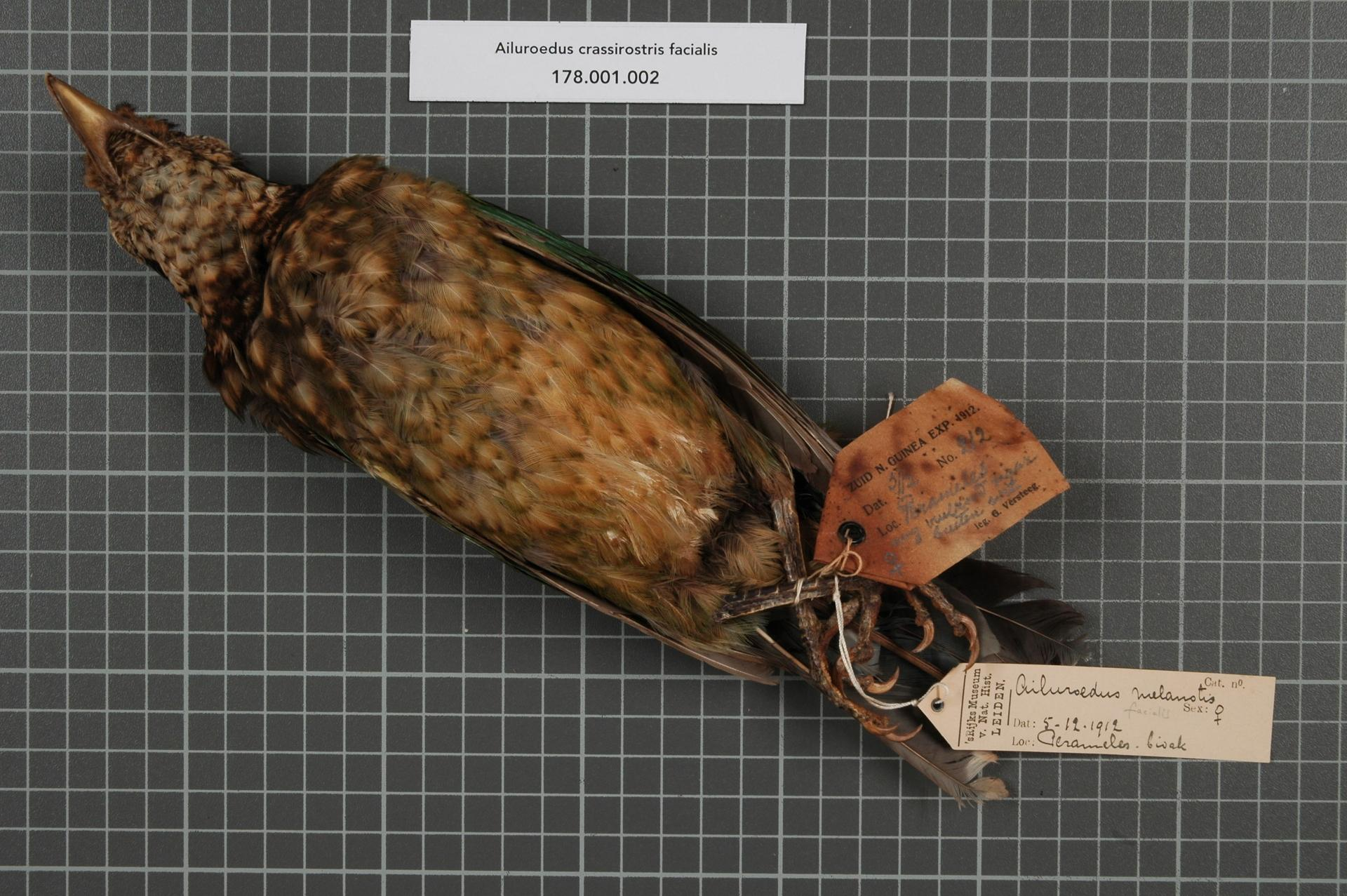 Ailuroedus crassirostris facialis Mayr, 1936